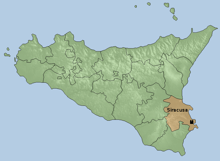 Map of the archdiocese of Syracuse (^^: Cathedral of a metropolitan diocese, –^: Cathedral of a suffragan diocese, ^–: Co-cathedral)